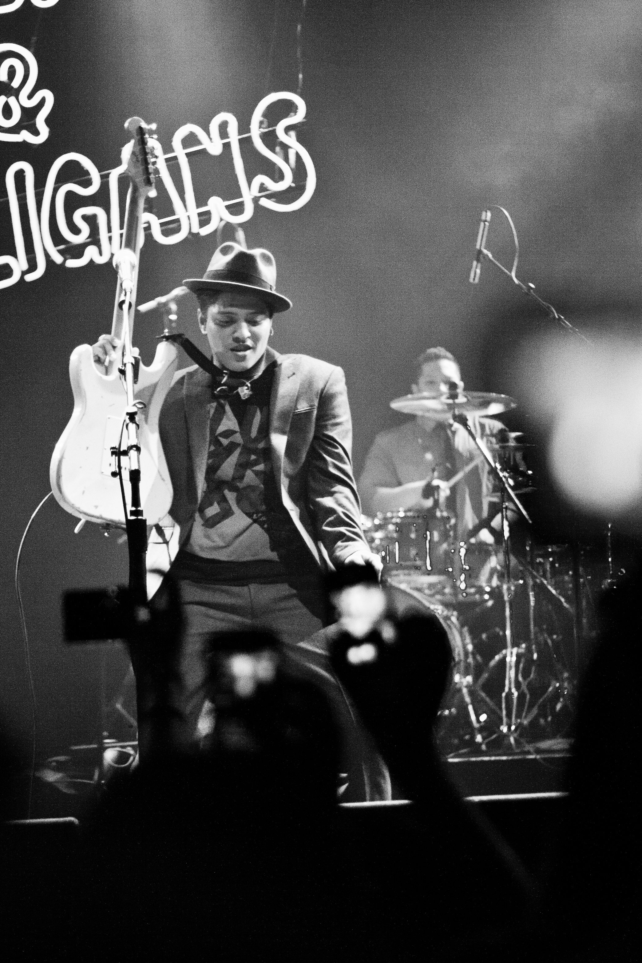 Warehouse Live